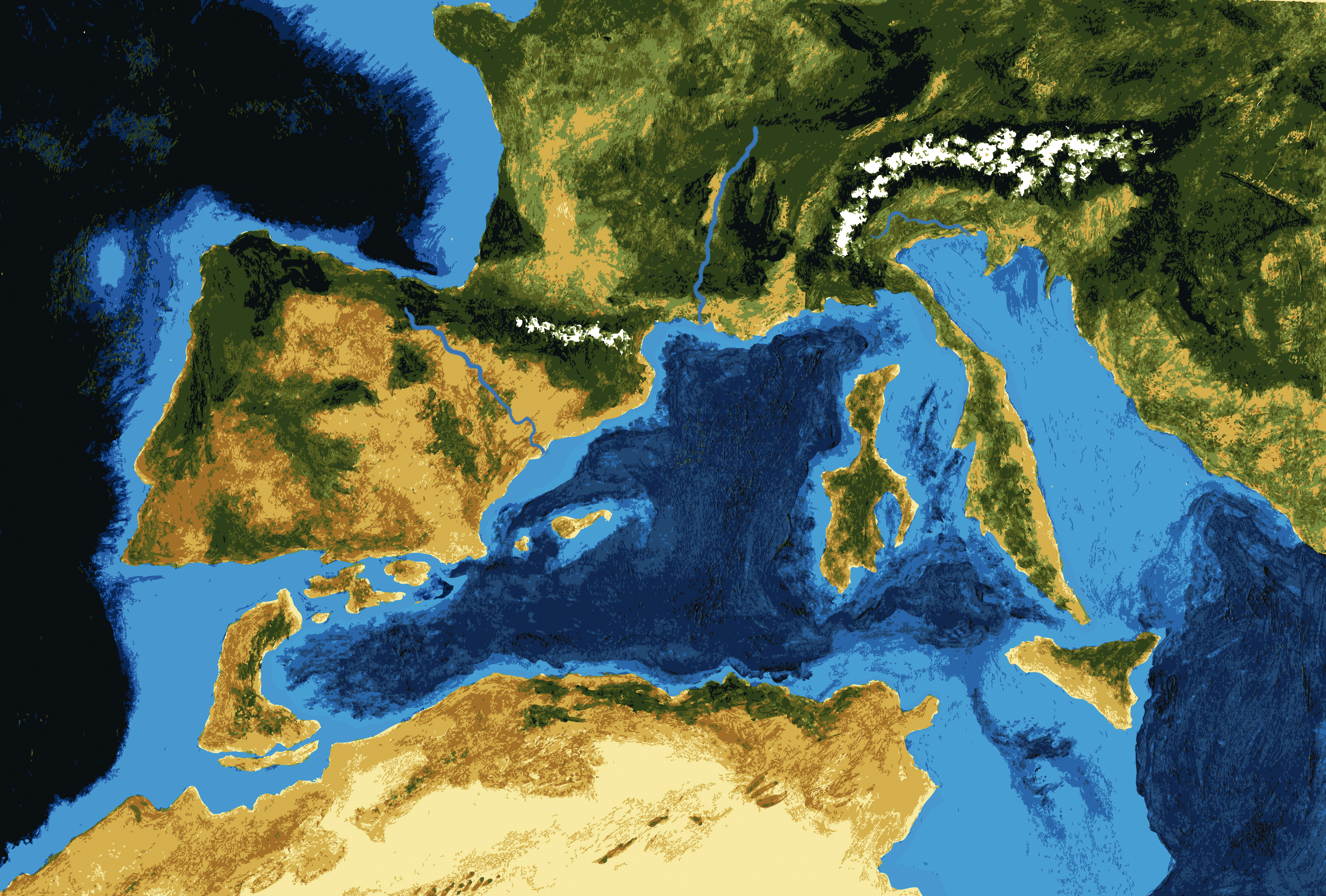 Restriction channels seawater exchange between the Atlantic and the Mediterranean for about 6.5 million years before the Messinian salinity crisis. The presence of several corridors and its depth allowed to maintain salinity of the Mediterranean to normal levels as happens today due to the Strait of Gibraltar flows. Artistic interpretation by Pau Bahí under the scientific supervision of Daniel Garcia Castellanos, geophysicist at the Institute of Earth Sciences Jaume Almera (CSIC)